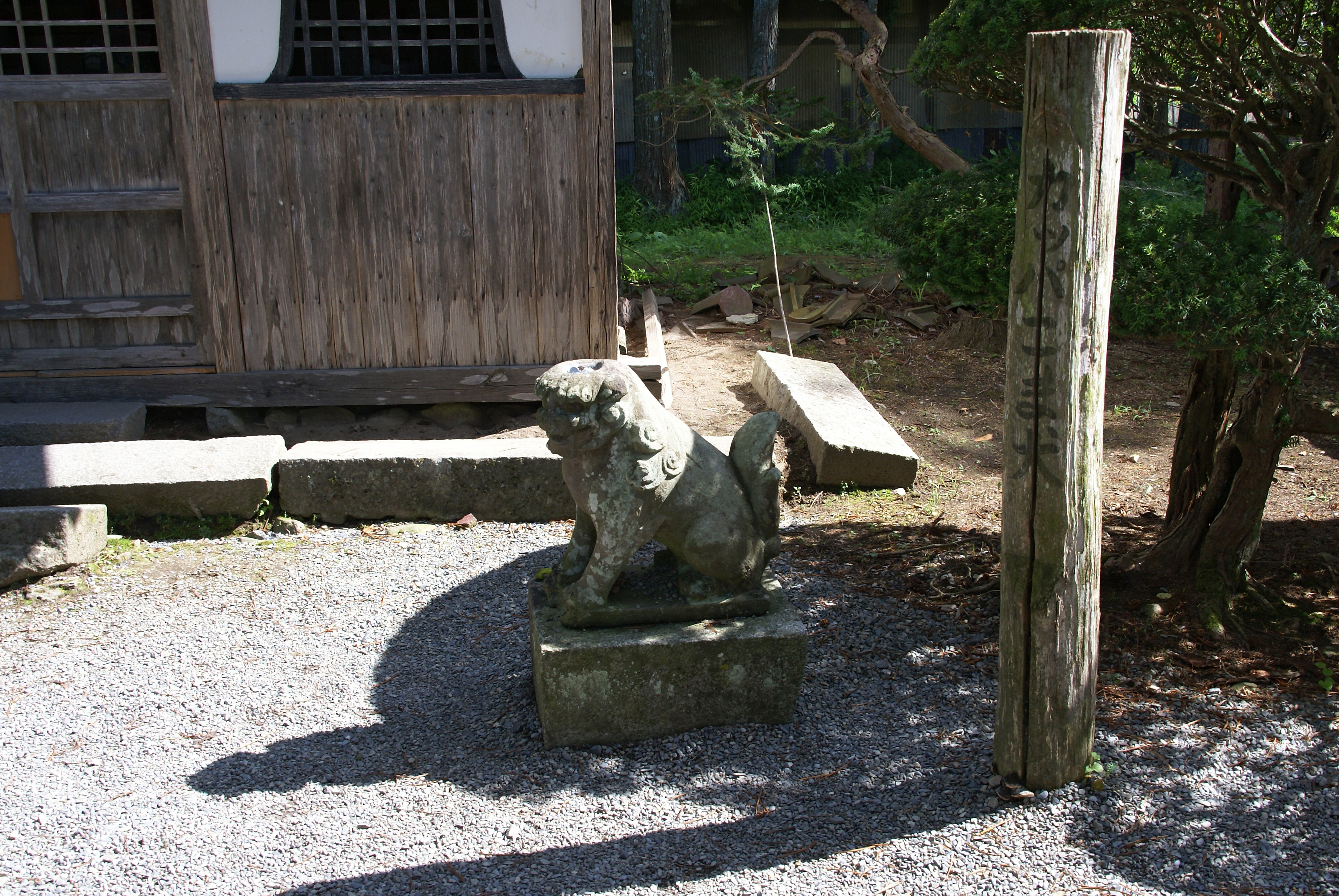 Jokenji in Tono, Iwate prefecture, Japan